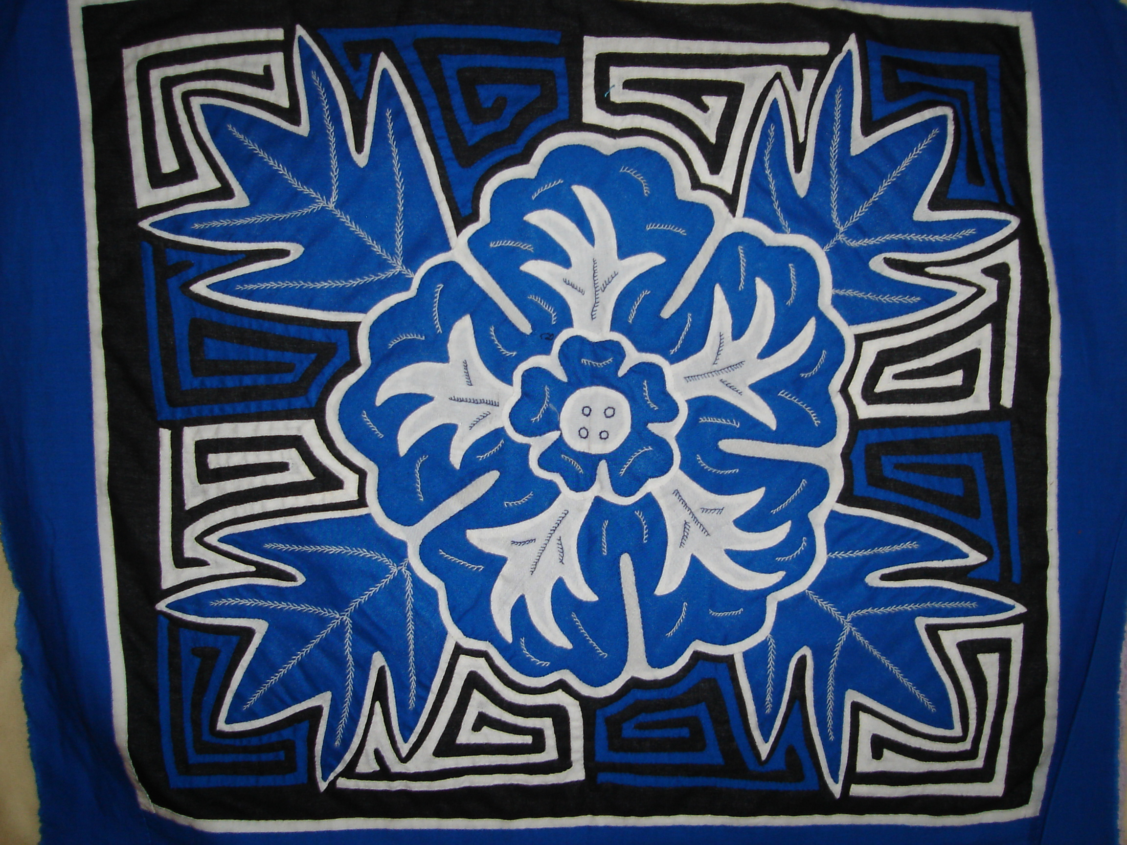 This is a mola made by a Kuna woman from Panama. It represents a hibiscus flower. Photo by Jesse Christopherson 2005.